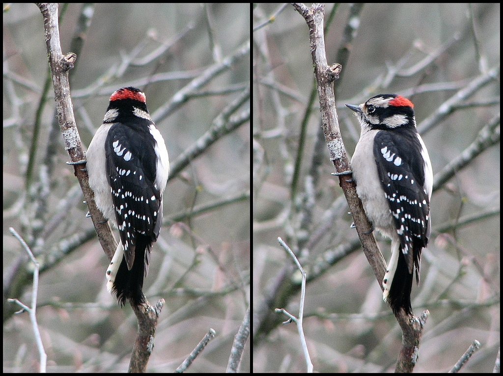 Male Downy Woodpecker